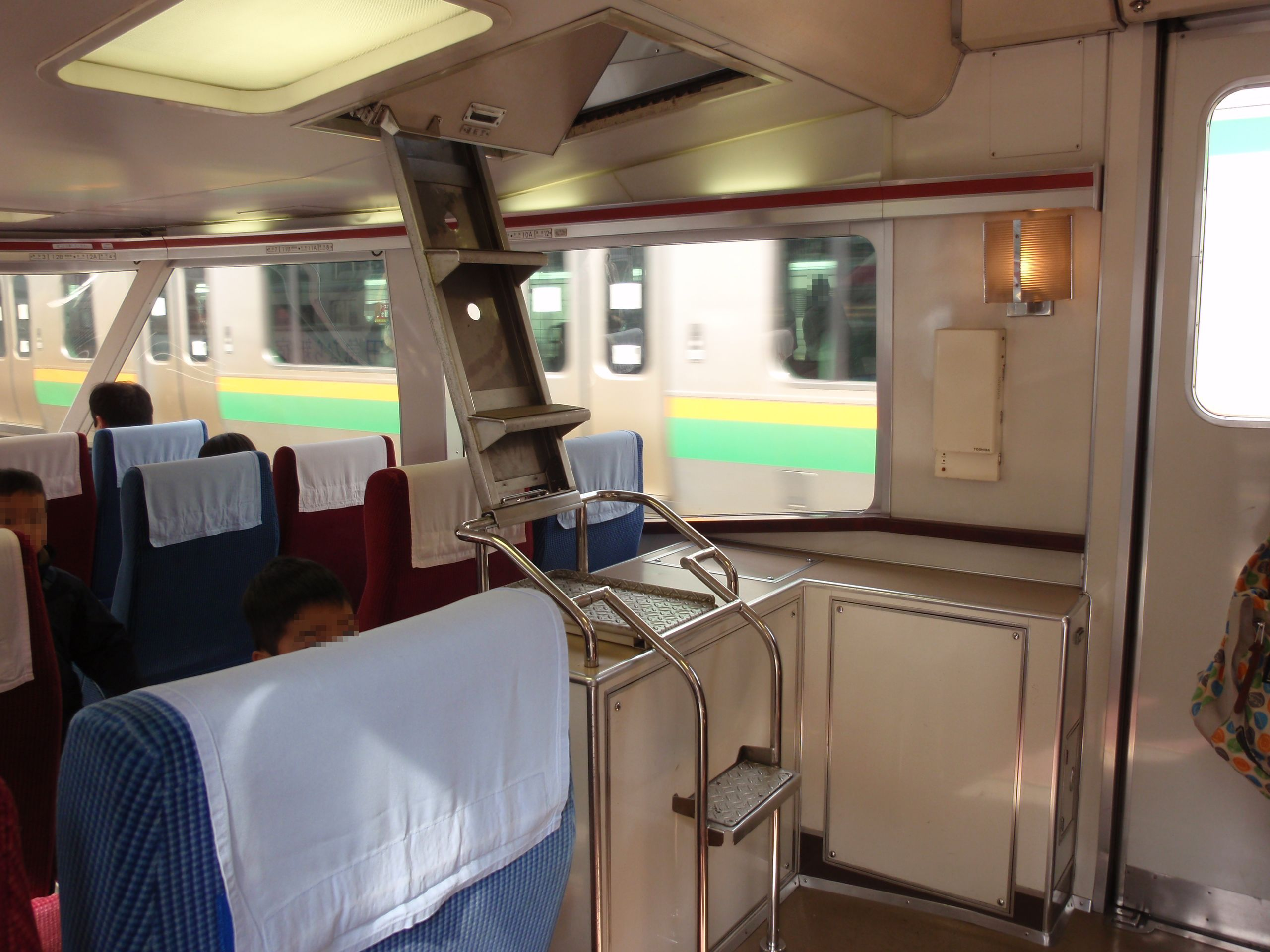 Ladder of Odakyu Elecrtic Railway type 10000.